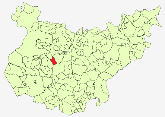 Aceuchal